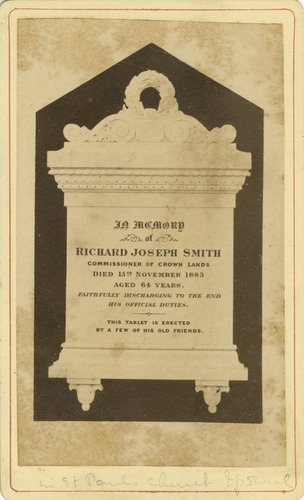 Richard Joseph Smith Plaque